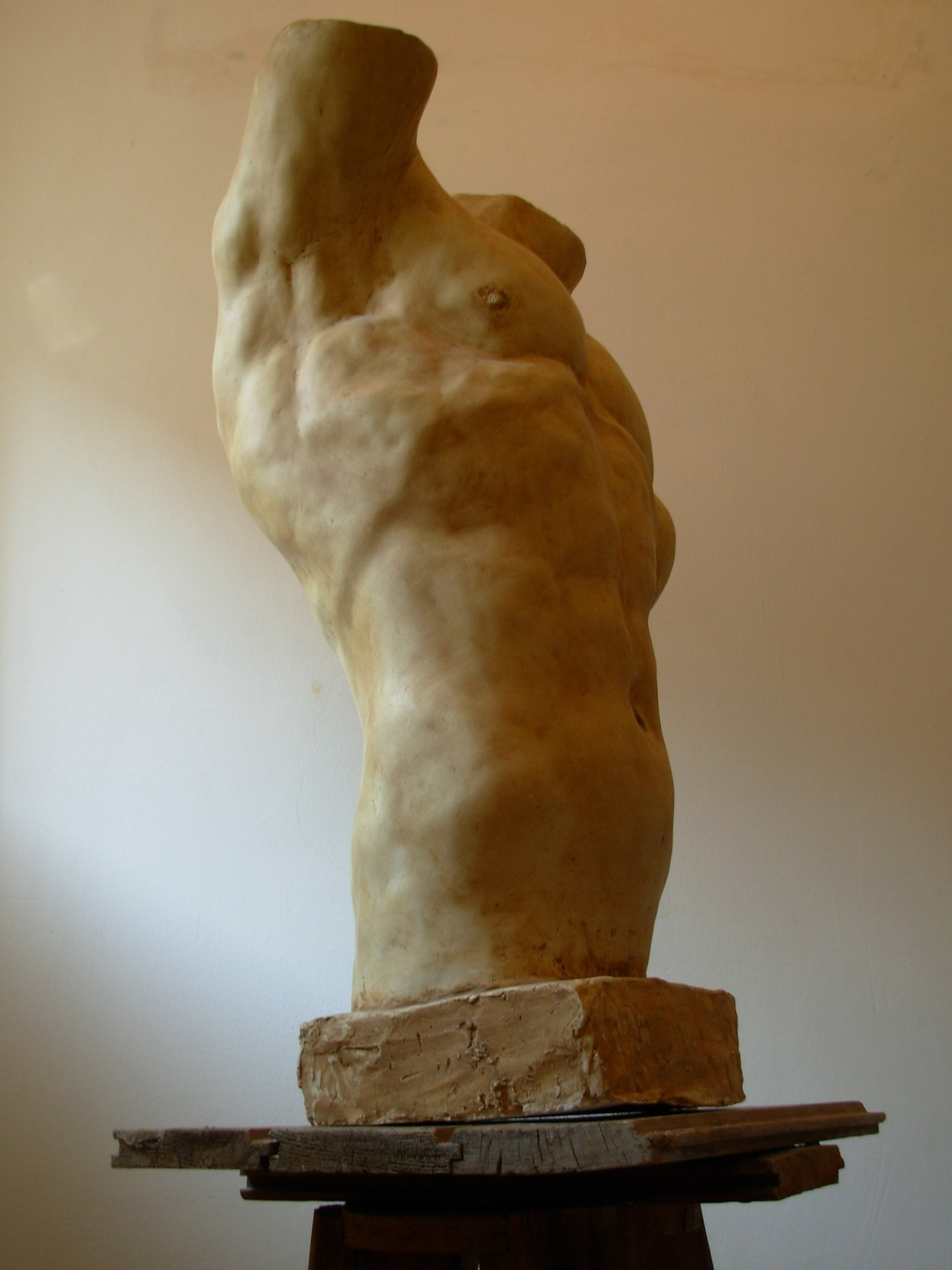 Vladislava Krstić, Torso-1.-plaster-64x38x27-cm